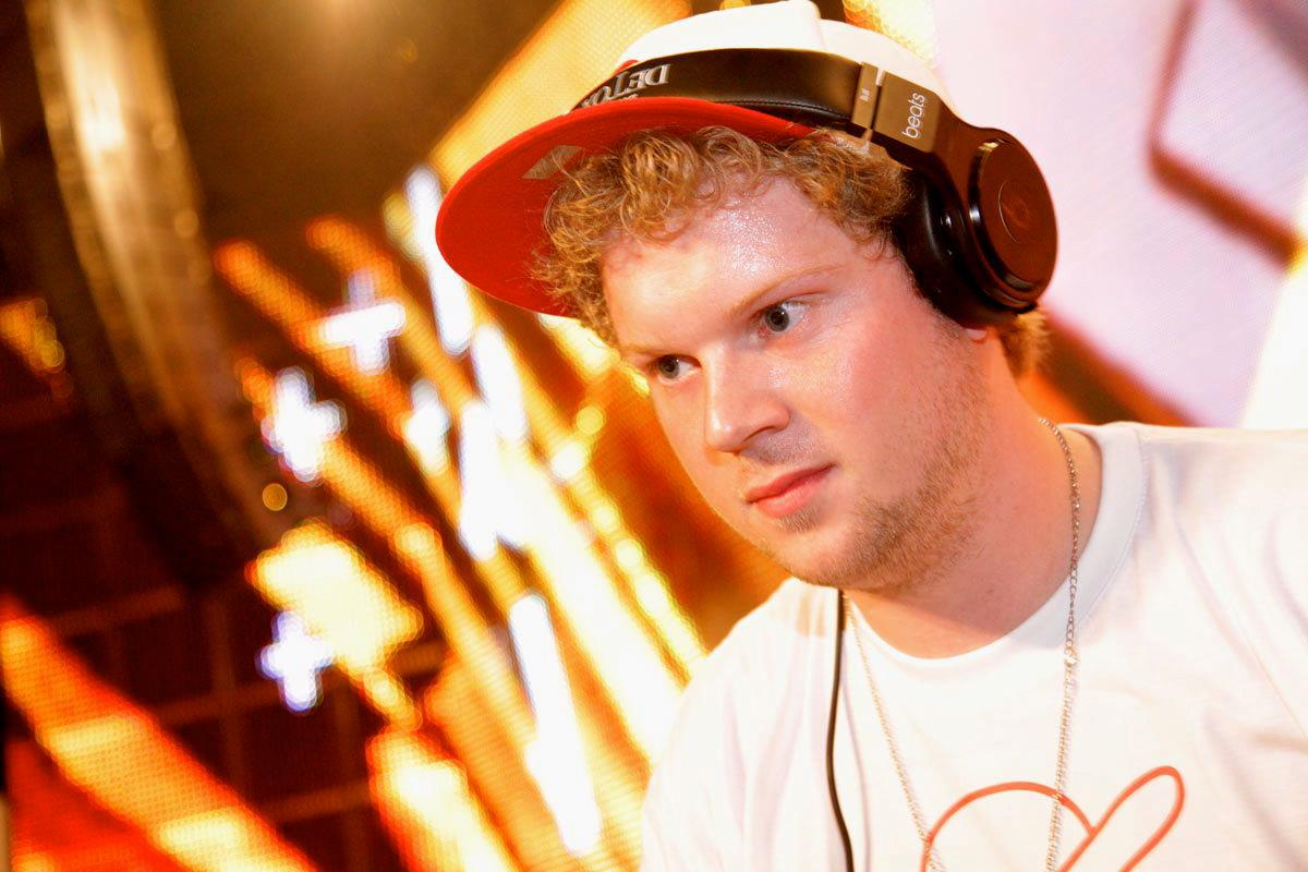 DJ Wee-O